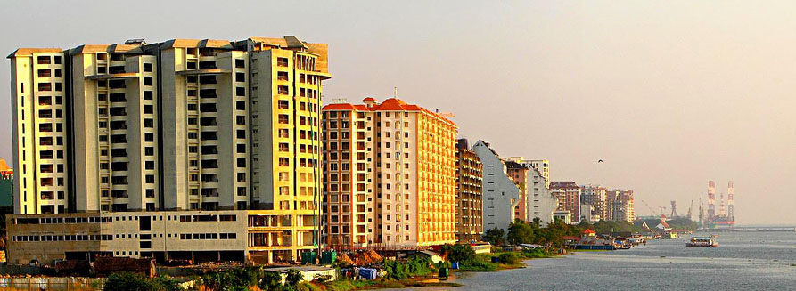 Skyline of Kochi, India.